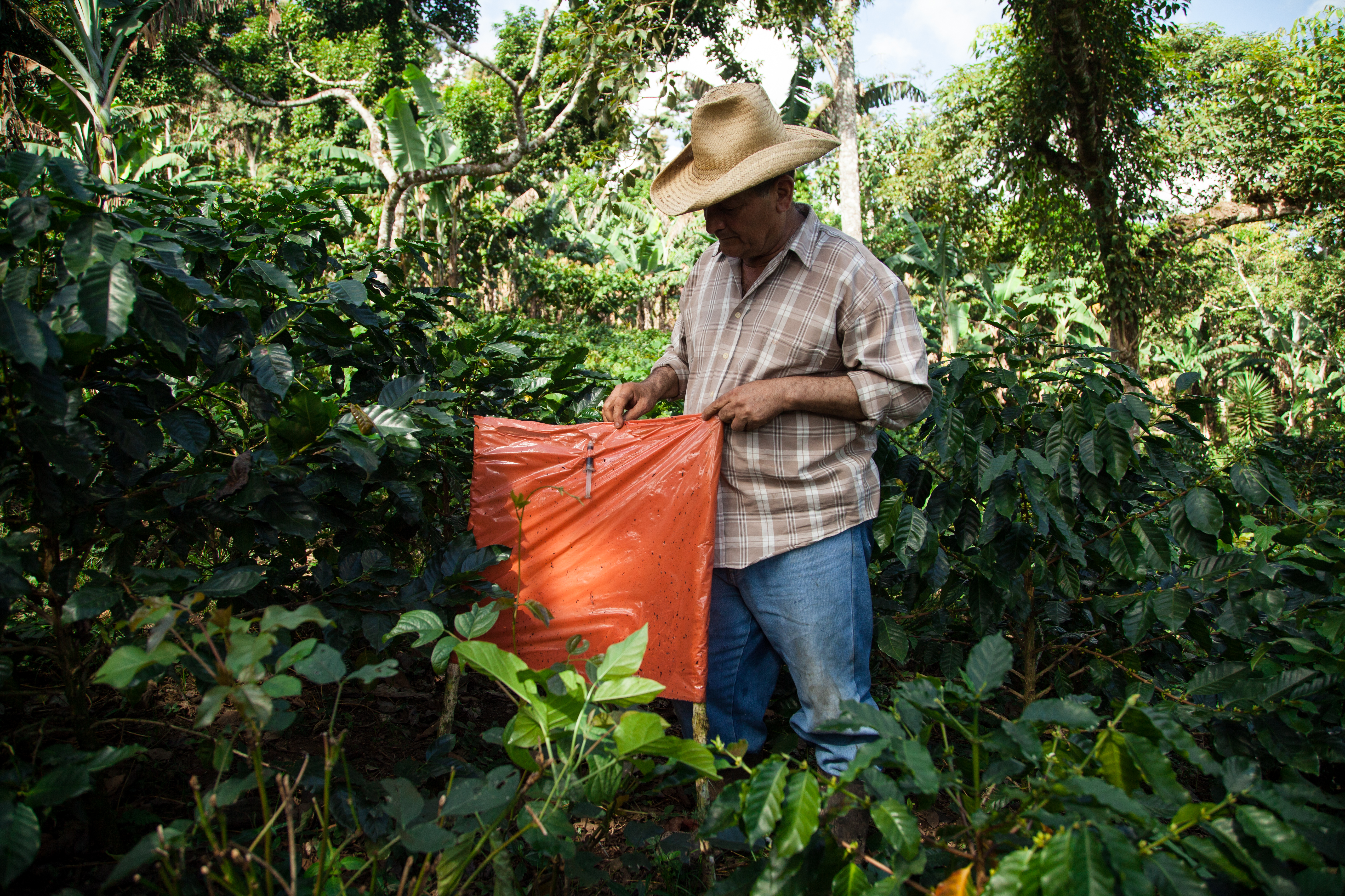 Producer Juan Hurtado inspects a broca, or coffee berry borer, trap among the coffee plants on his farm, Finca La Esperanza. Photograph: January 21st, 2016, Yasica Sur, San Ramon, Nicaragua. Morgan Arnold, freelance.